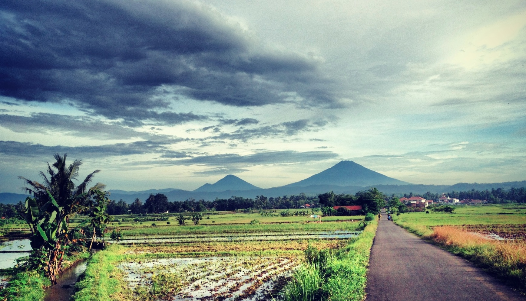 Scenery of Purworejo with the view of mountain Sumbing & Sindoro at the distance